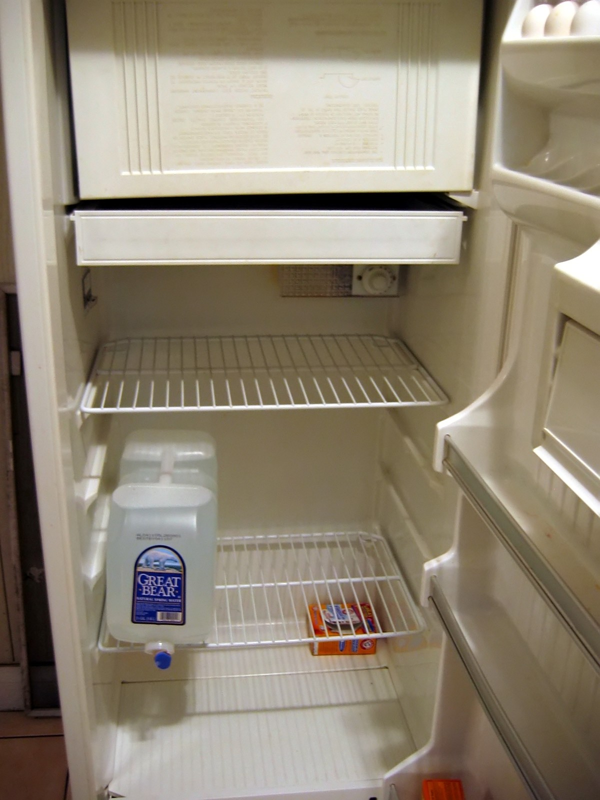 Older refrigerator model, with freezer compartment